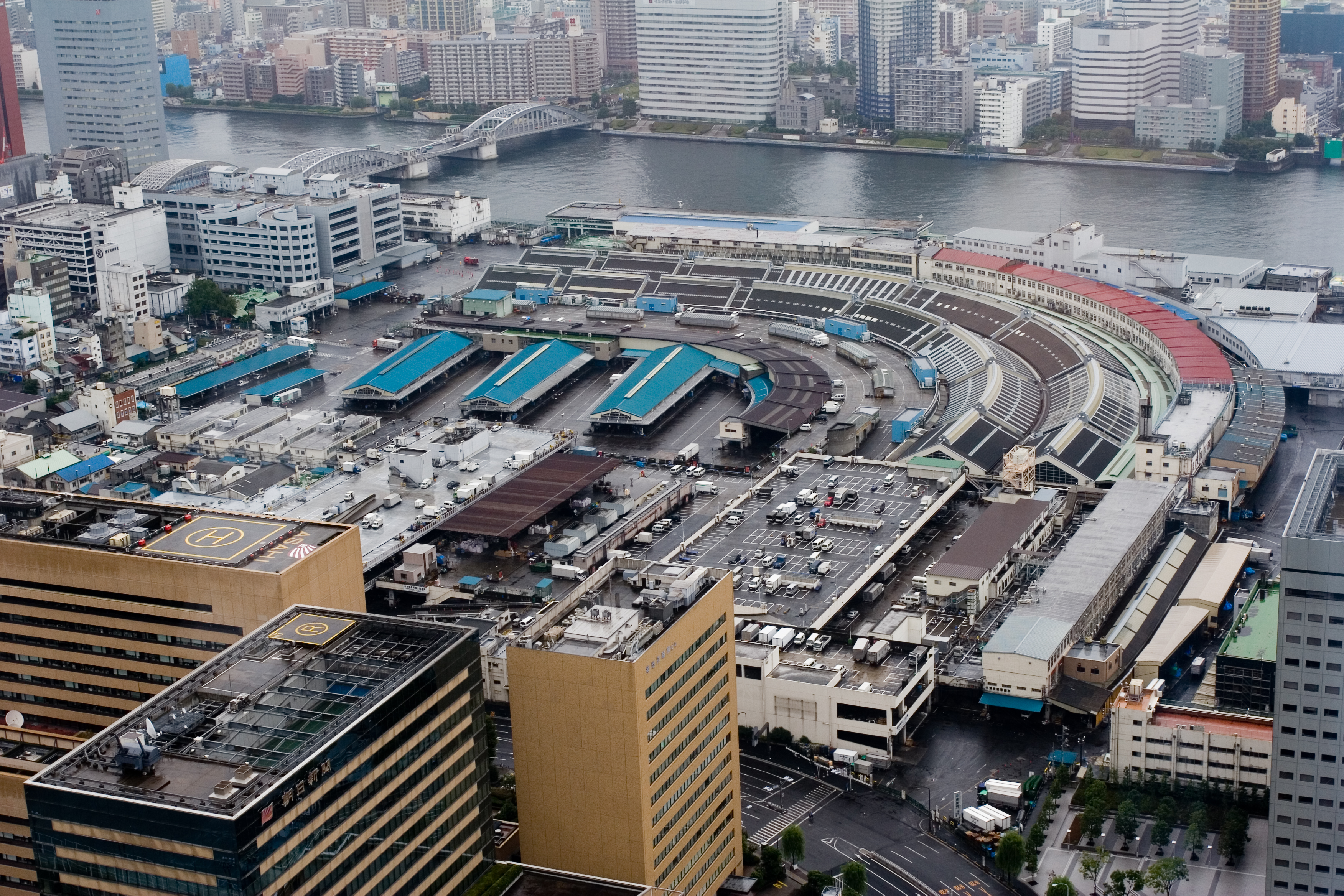 Tsukiji fish market from Shiodome